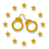 European Arrest Warrant